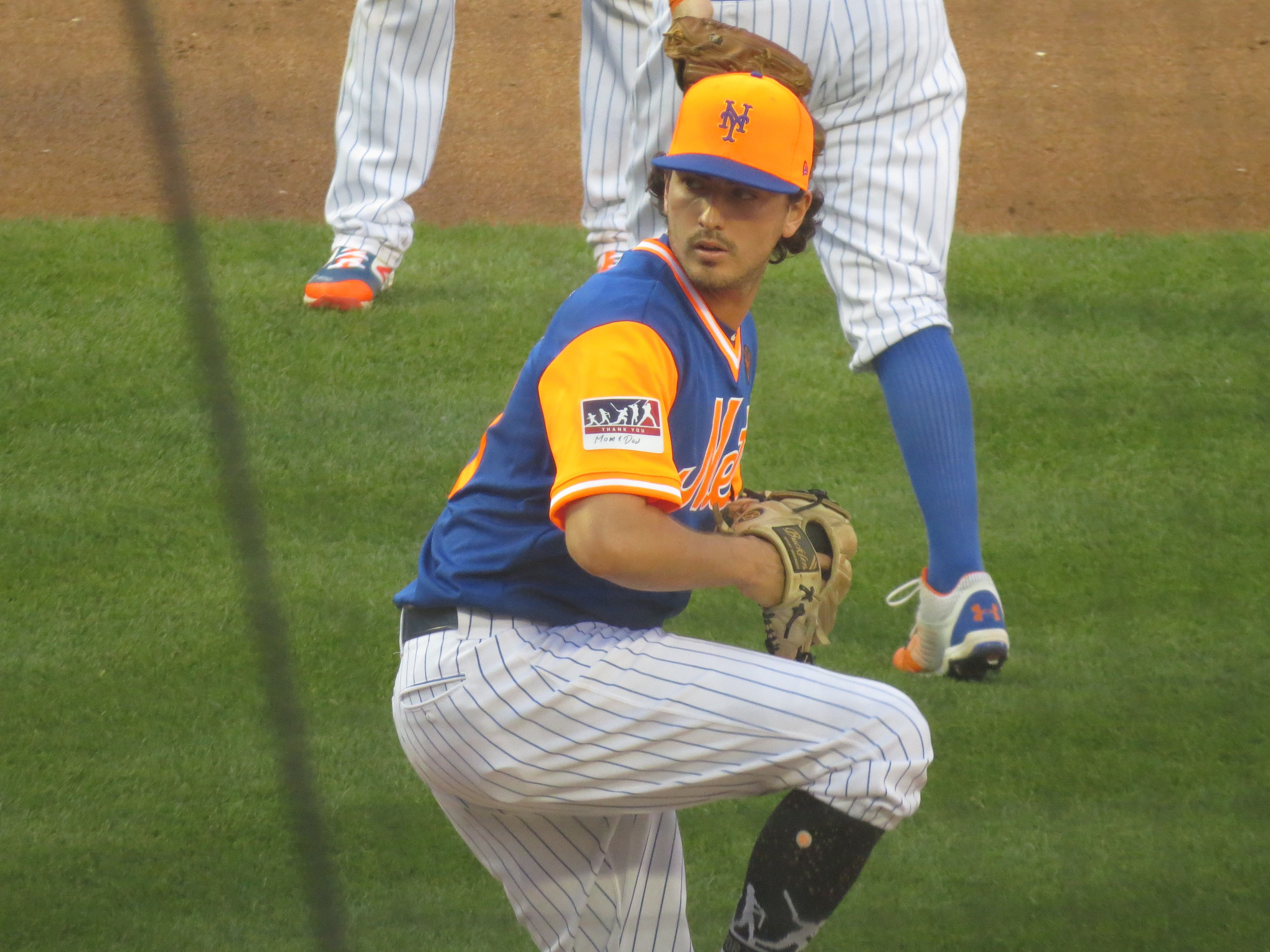 Daniel Zamora of the Mets pitching on August 25, 2018